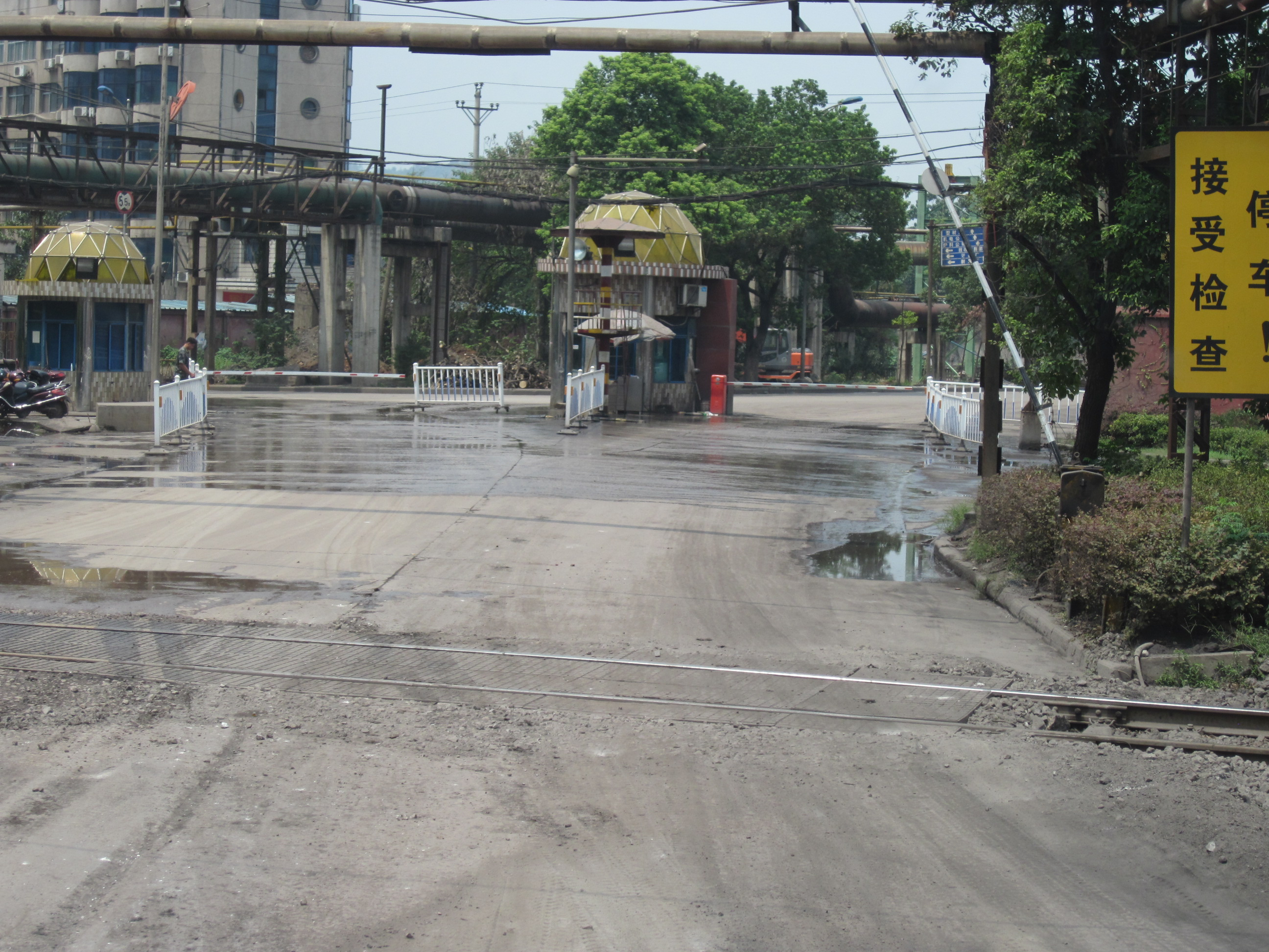 Lianyuan Steel, it is located in Loudi City, Hunan Province, People's Republic of China.